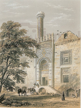 Edward Falkener, Isa bey Mosque, Efes